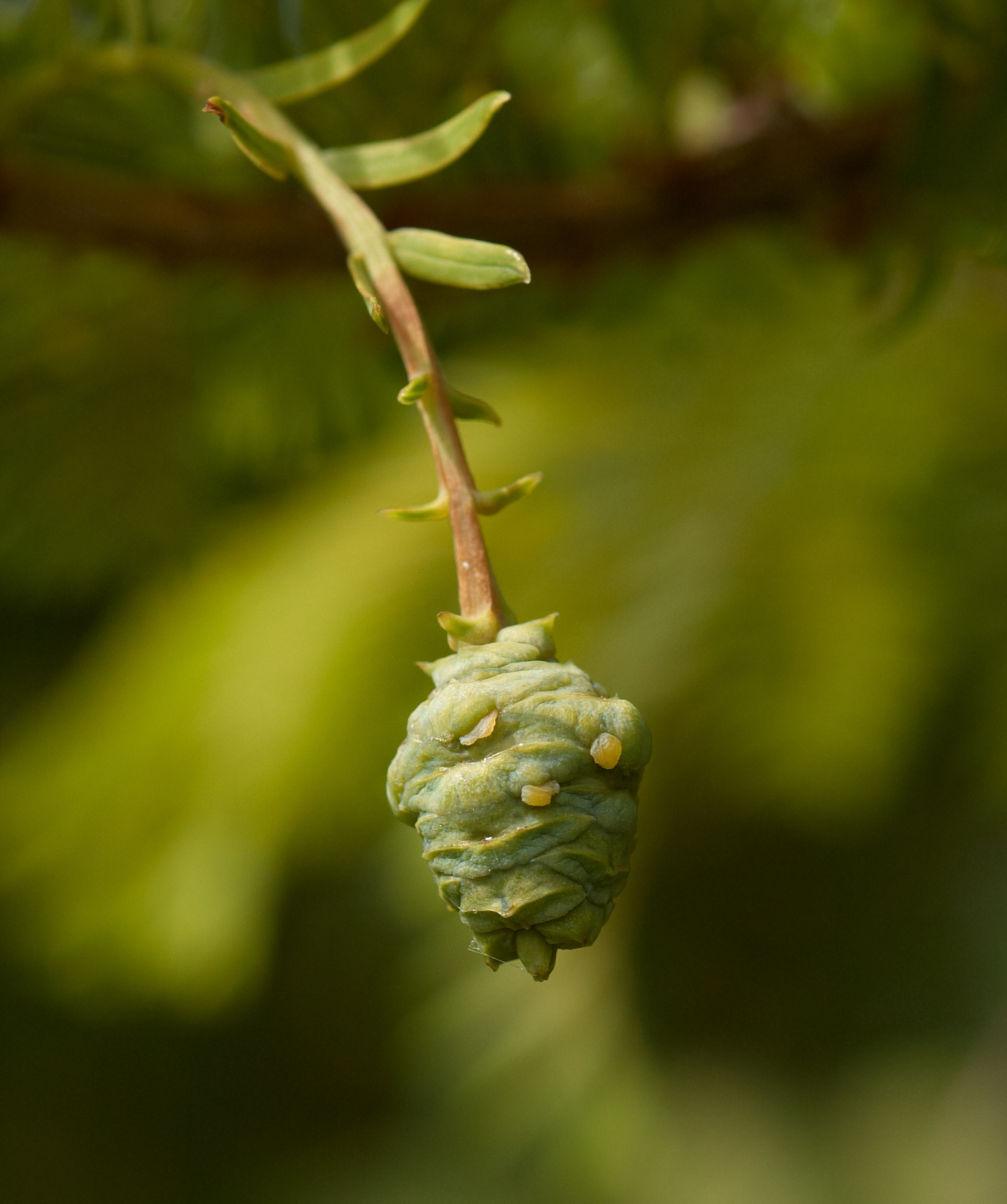 Fruit of Metasequoia glyptostroboides